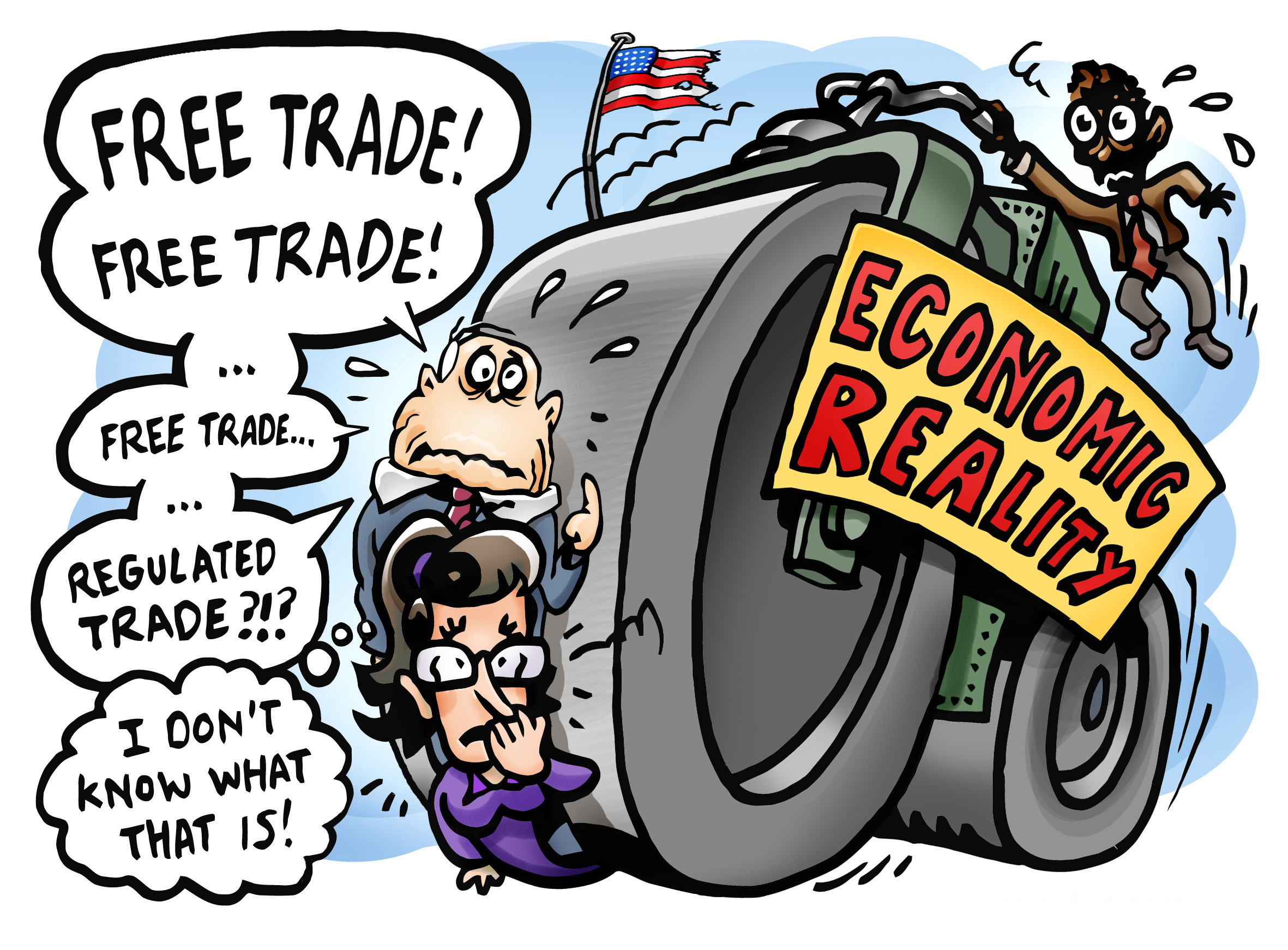 Cartoon about economic reality, hitting presidential campaign of John McCain and Sarah Palin